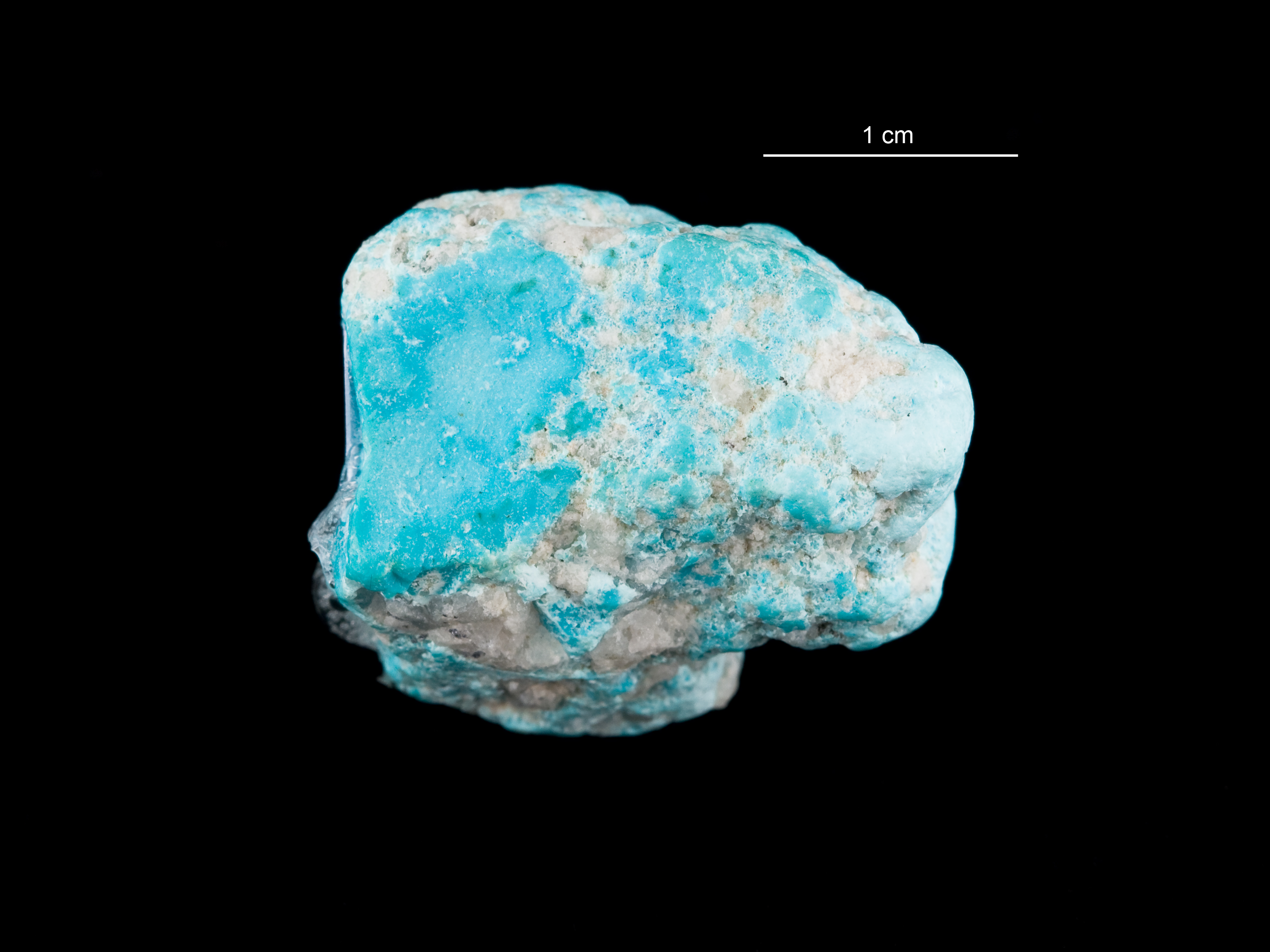 Turquoise with intense blue colour from Bisbee. The characteristic blue colour of turquoise is due to copper in its crystal structure. The mineral itself is usually found in assemblages with copper ores. Turquoise has formed as the secondary mineral in weathering processes of primary ore. Despite considerably low hardness of turquoise the fine specimens of turquoise have been widely used for making gems. More info about this file and about this specimen at